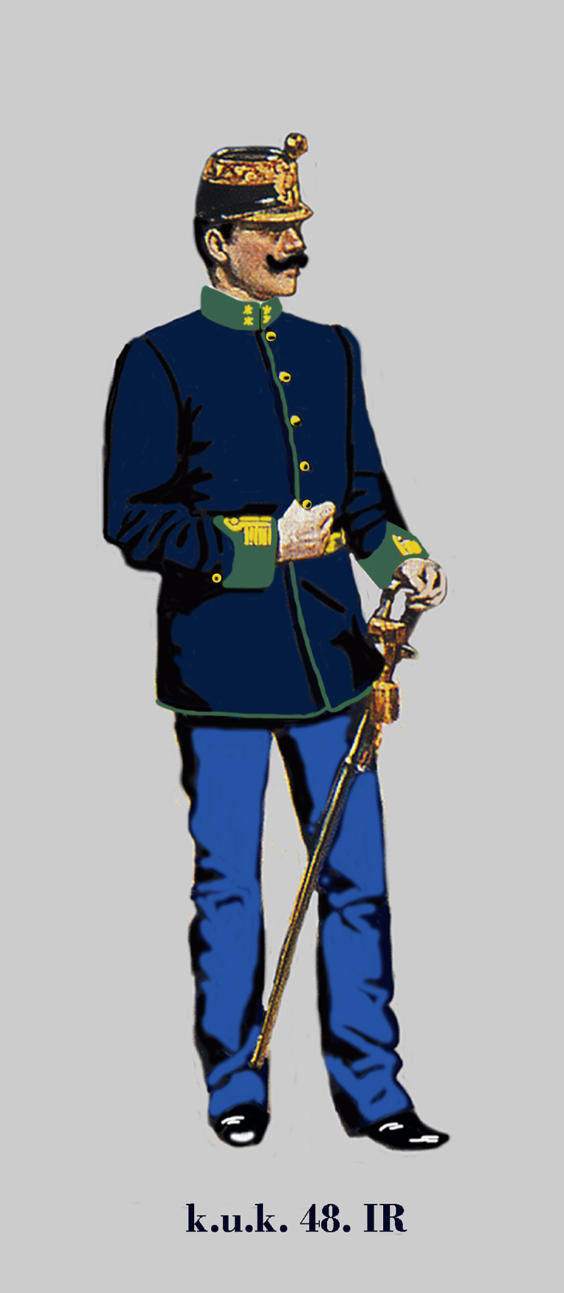 1st Lieutenant of the Austria-Hungarian (k.u.k.). 48th hungarian Infantry Regiment in Parade dress 1914